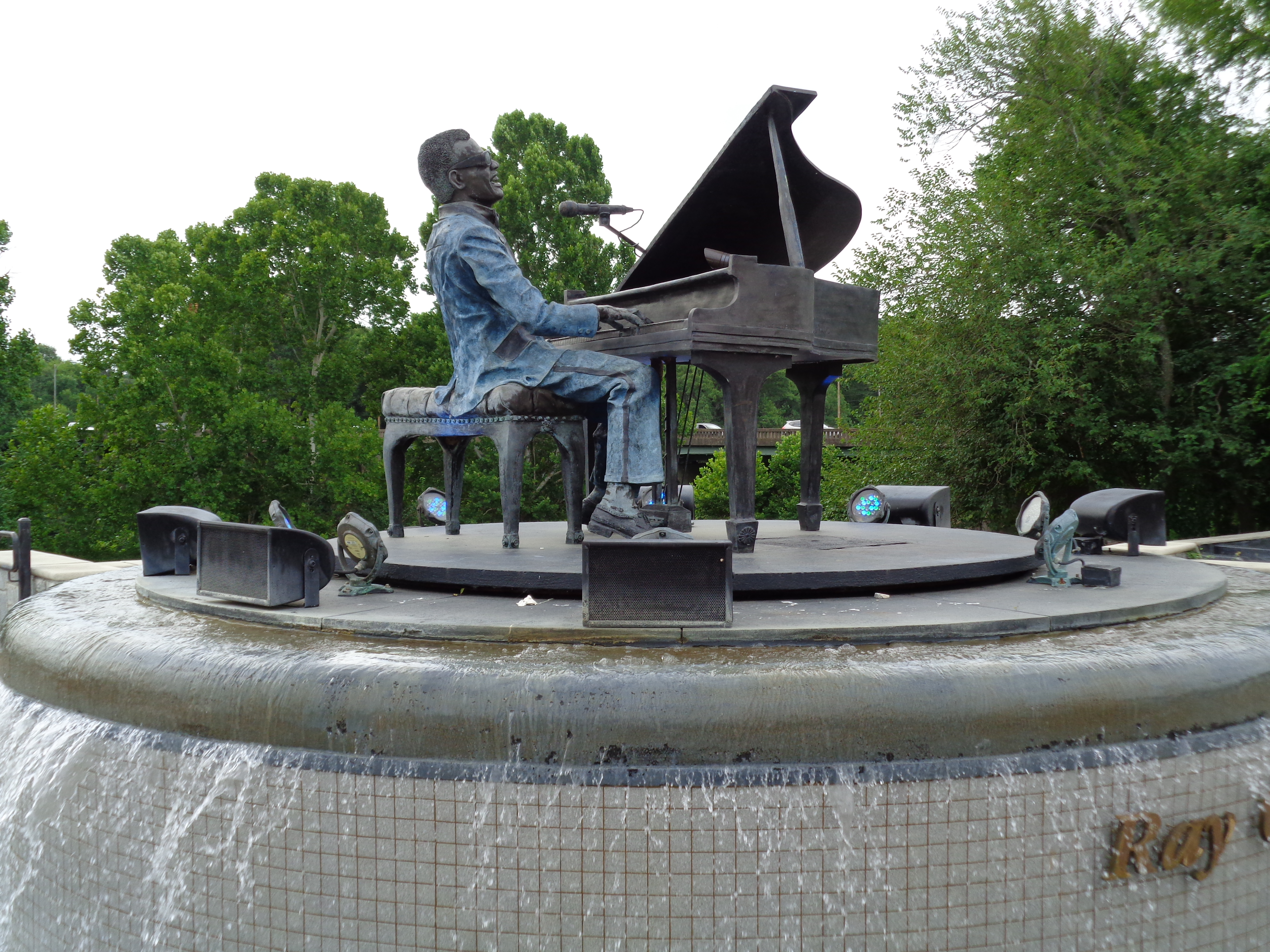 Albany, Dougherty County, Georgia